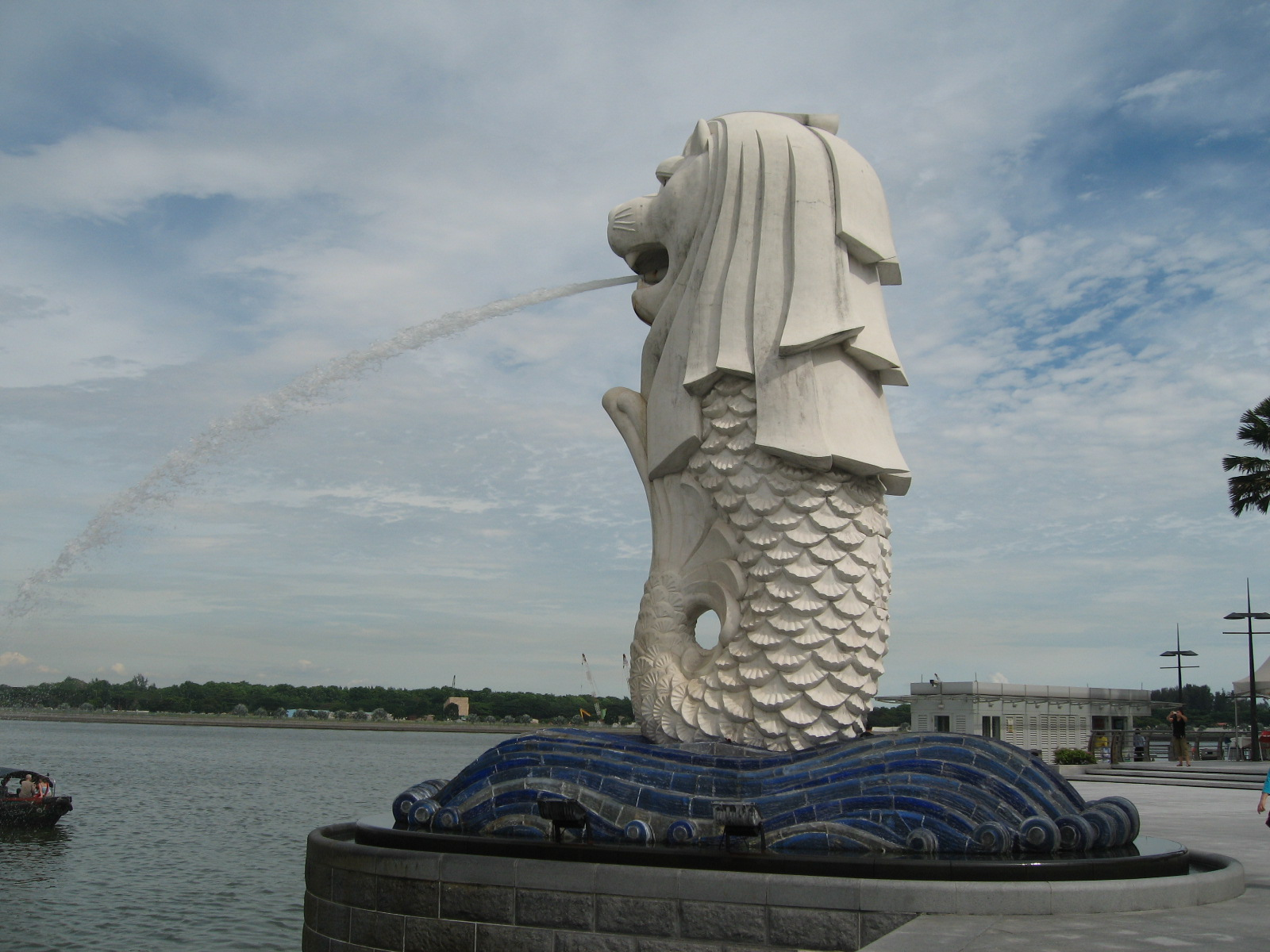 Merlion.